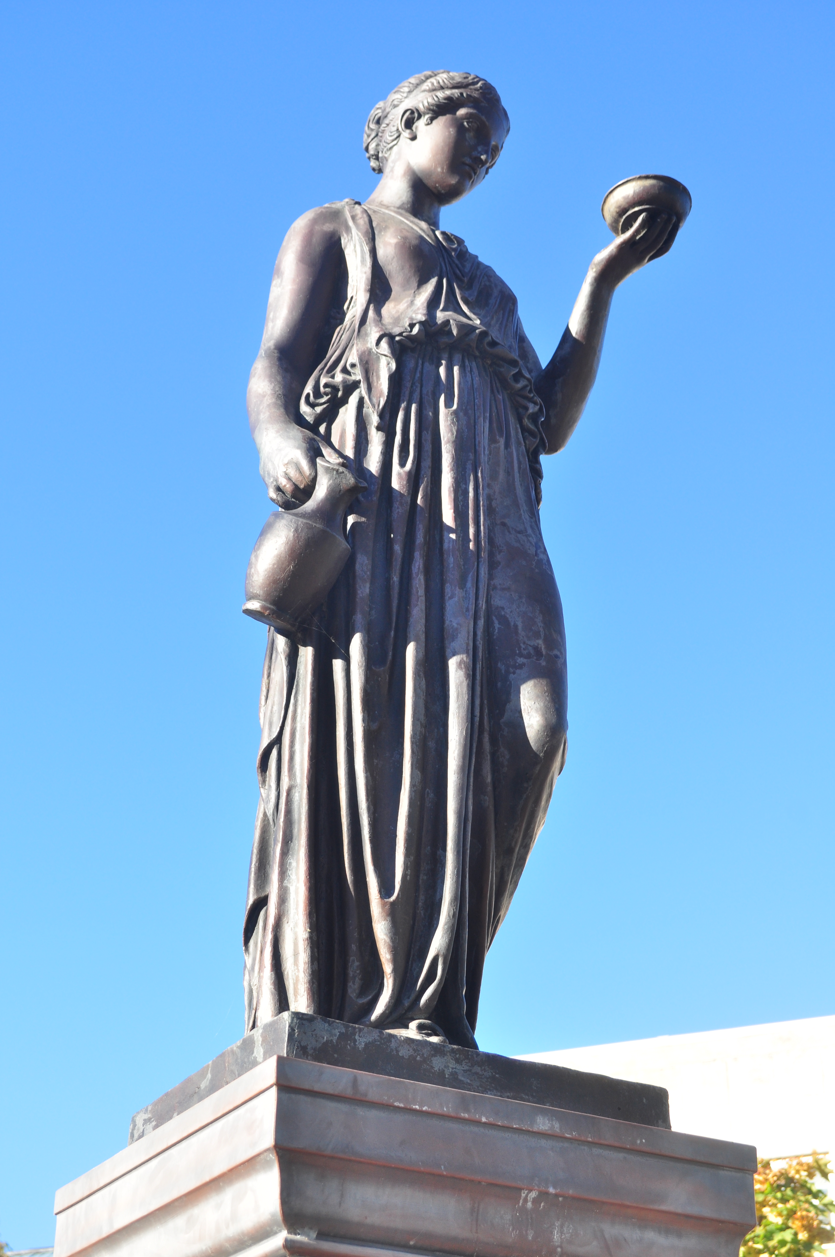 The Hebe Fountain in Eagles Park, Roseburg, Oregon, U.S. (circa 2002), features a replica of a sculpture of Hebe by Danish sculptor Bertel Thorvaldsen. A Hebe Fountain stood from 1908 to 1912 at the corner of Cass and Main in Roseburg; it was damaged by a runaway team of horses, never re-erected, and its whereabouts are unknown. The original 1908 fountain and sculpture was sponsored by the Woman's Christian Temperance Union and the 1895 Mental Health Club (now Roseburg Women's Club). This recent statue in Eagles Park is in part a tribute to that earlier statue.